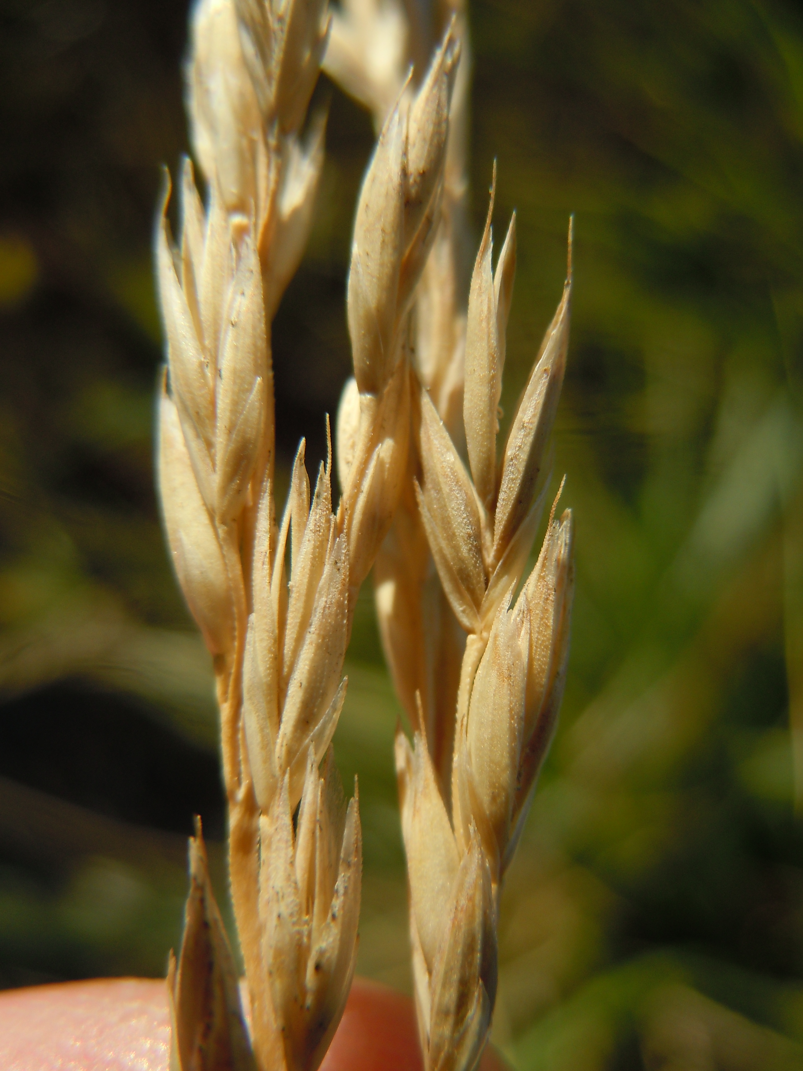 The short-awned lemmas that have veins often lined with scabrous hairs coincide with the robust habit of this species.